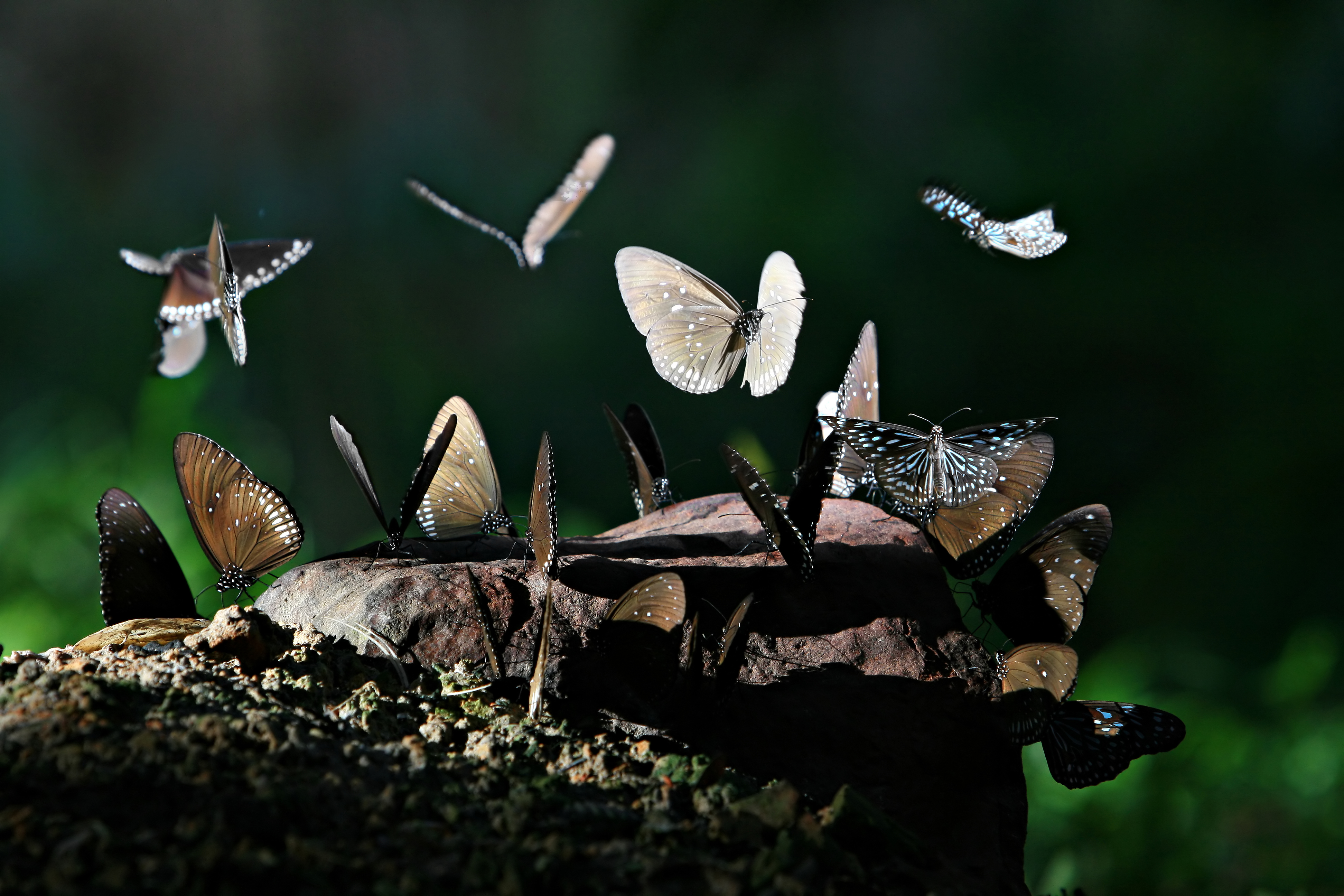 A swarm of butterflies in Pang Sida National Park, Sa Kaeo Province